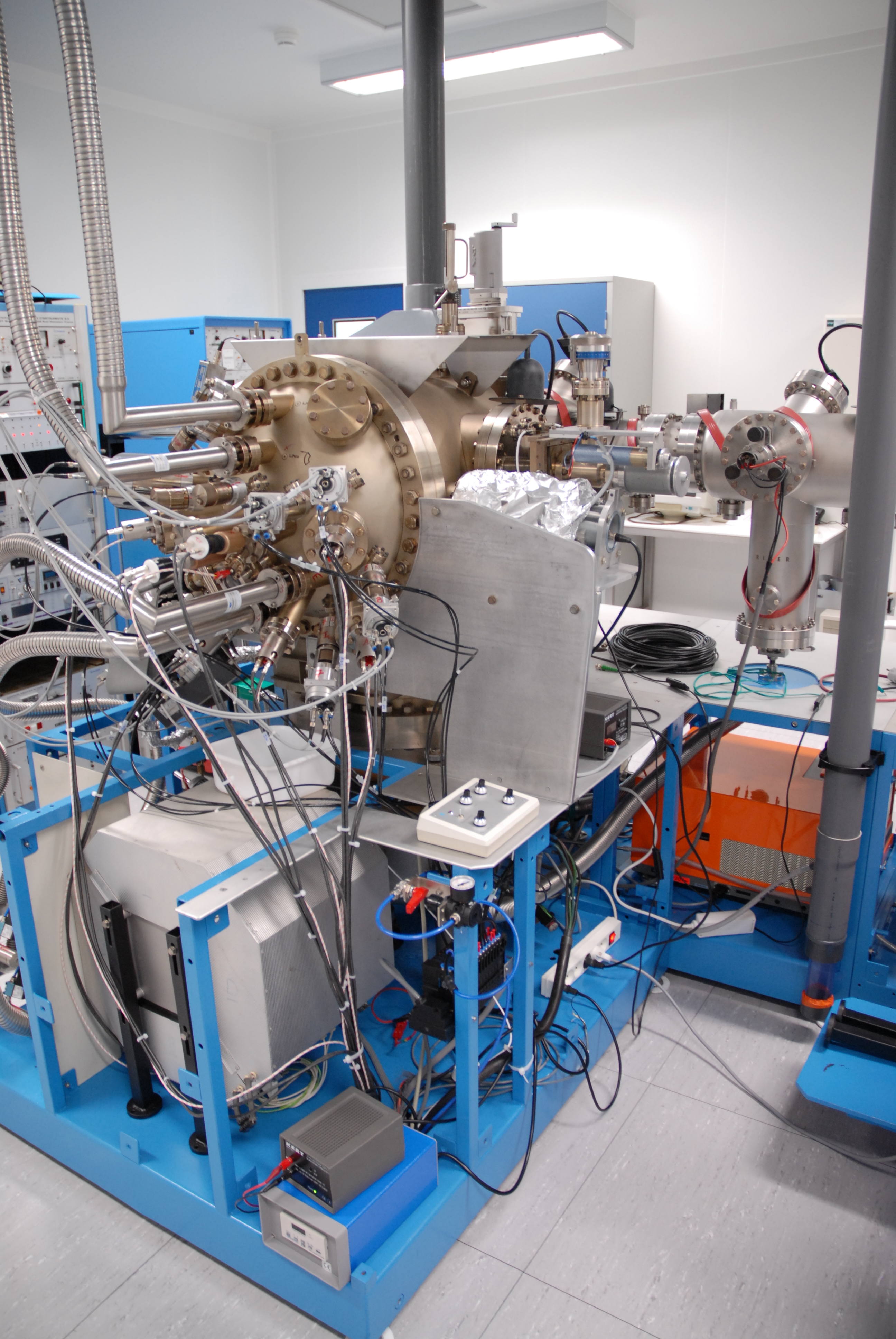 Molecular-beam epitaxy system at LAAS-CNRS technological facility in Toulouse, France.